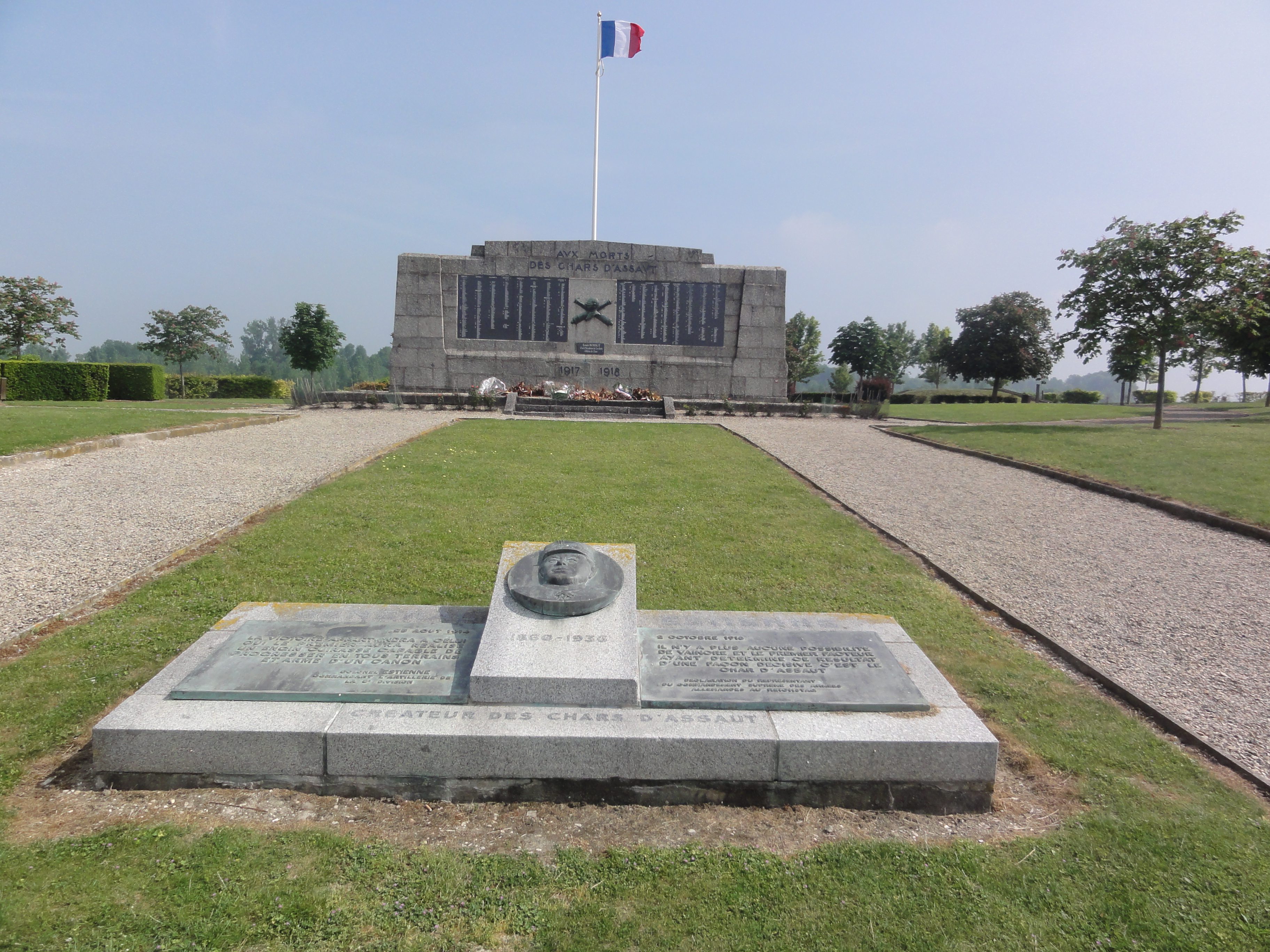 Berry-au-Bac (Aisne) Mémorial des chars d'assaut 01 .